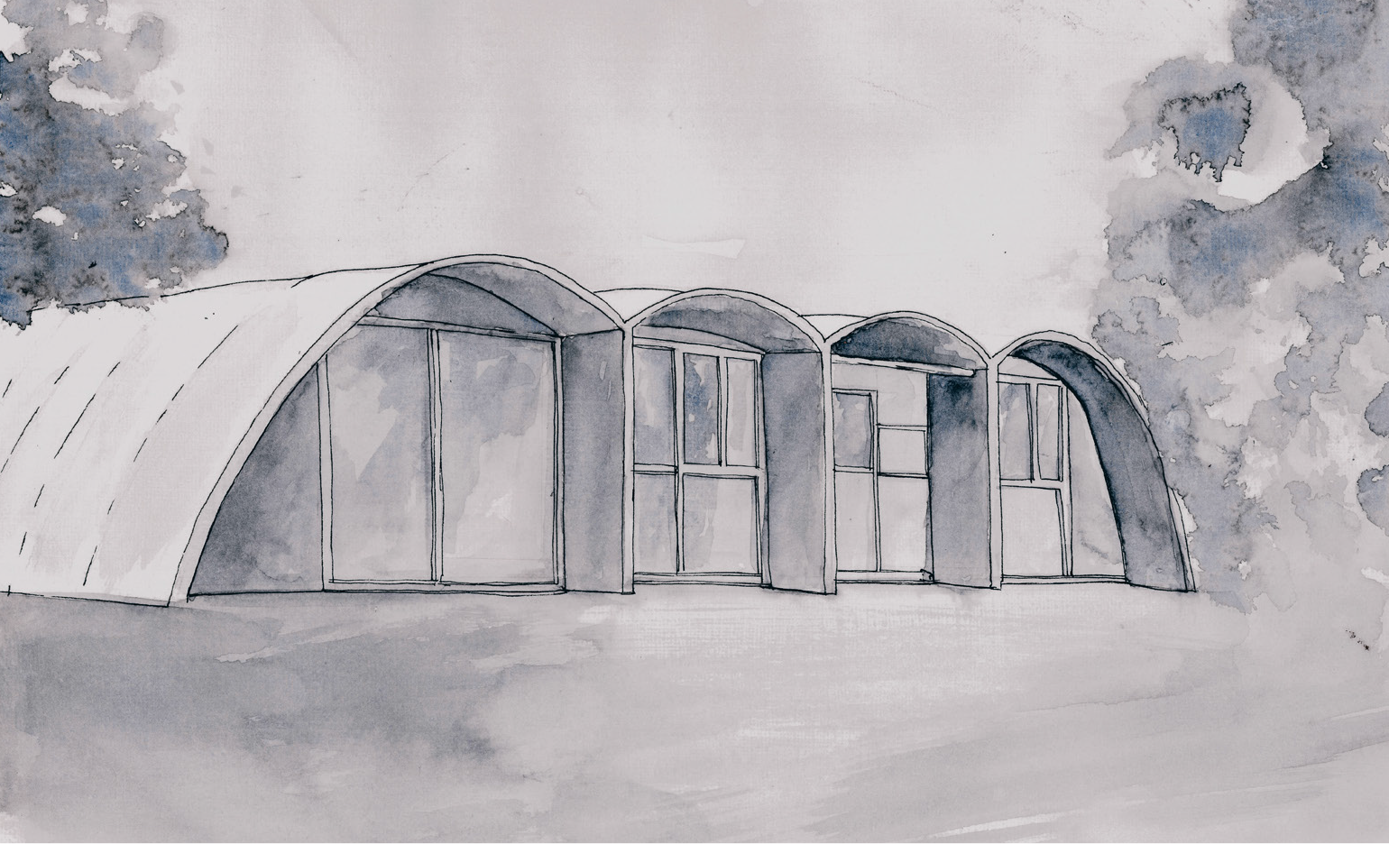 View of the Rice House from the North-East of the site